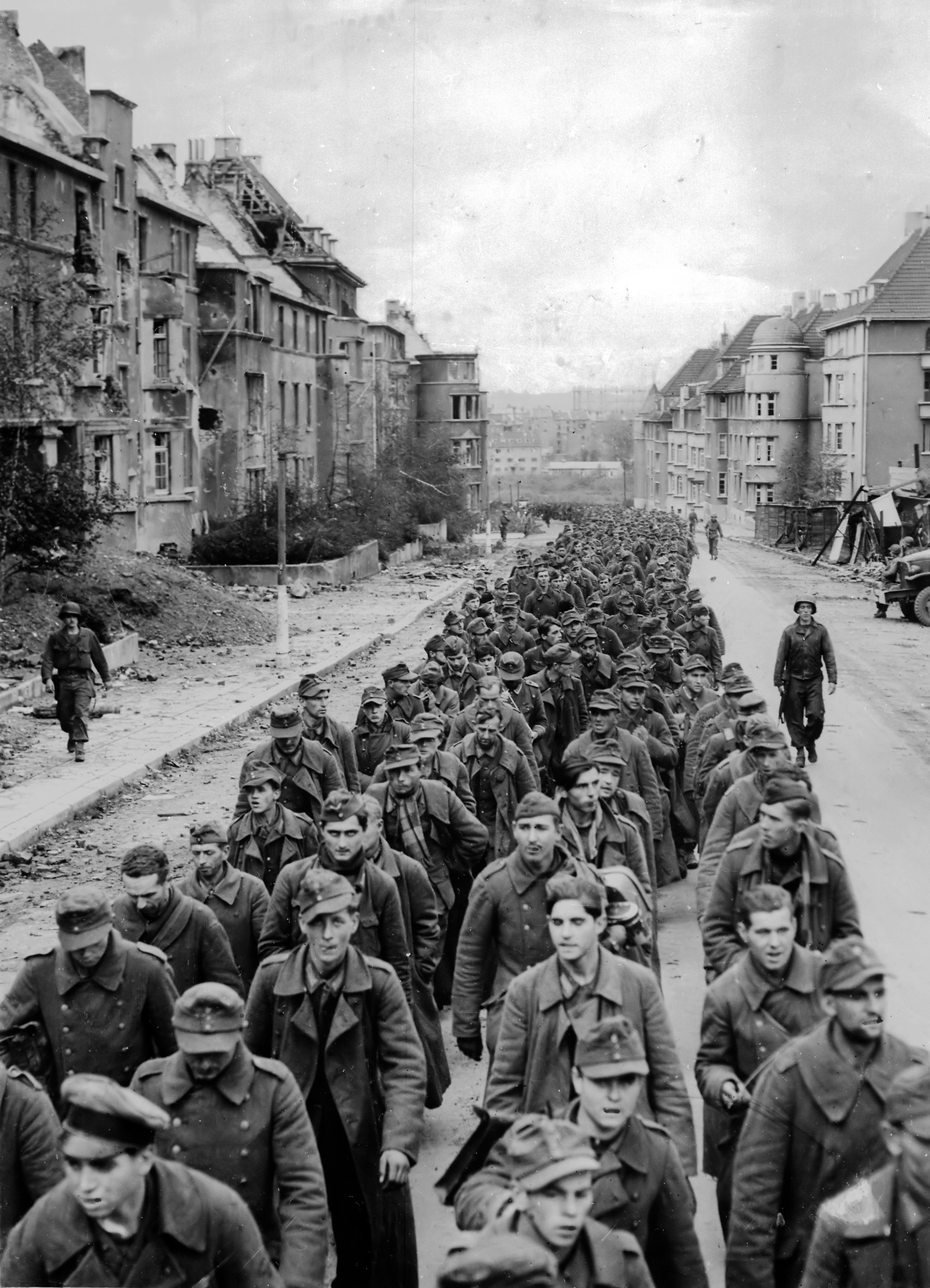 Prisoners of war. Original Title: "The endless procession of German prisoners captured with the fall of Aachen marching through the ruined city streets to captivity.", 10/1944 Picture taken from the Hohenzollern square looking to the Joseph von Görres street, down to the nowadays Europe square.